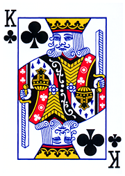 A Playing card: king of clubs , from poker deck, in small png format.